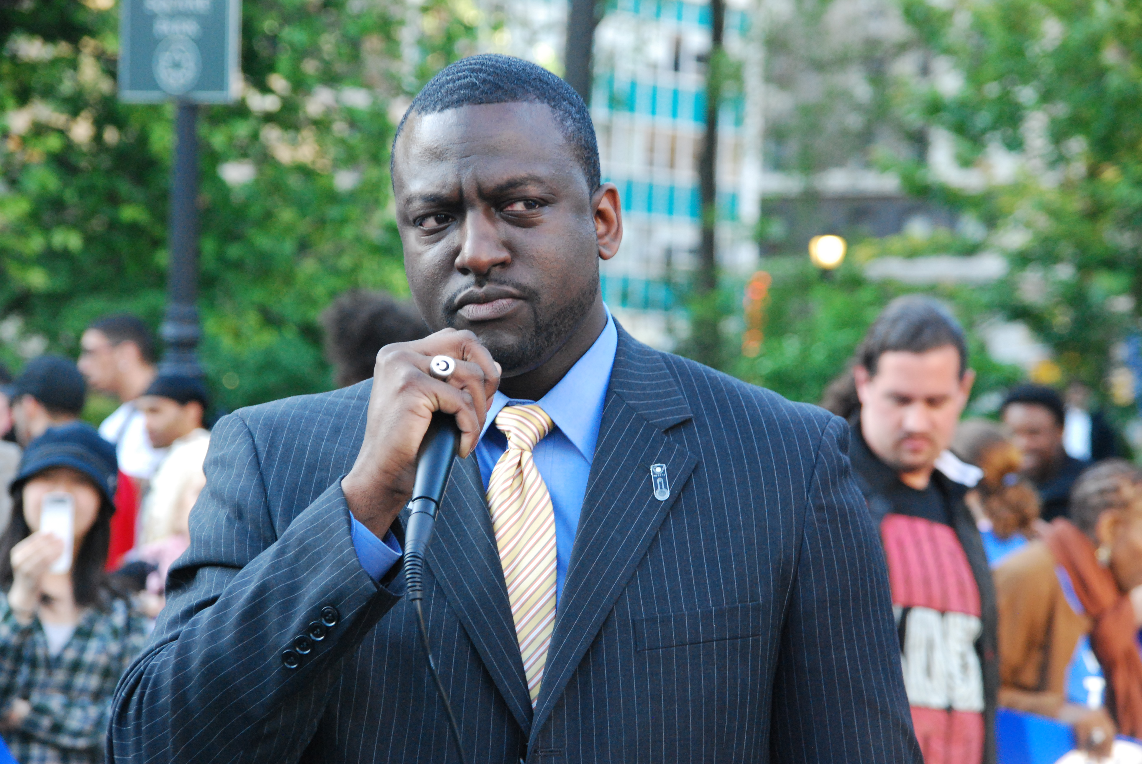 Yusef Salaam of the Central Park Five - speaking at a rally for Troy Davis. Union Square, New York City.